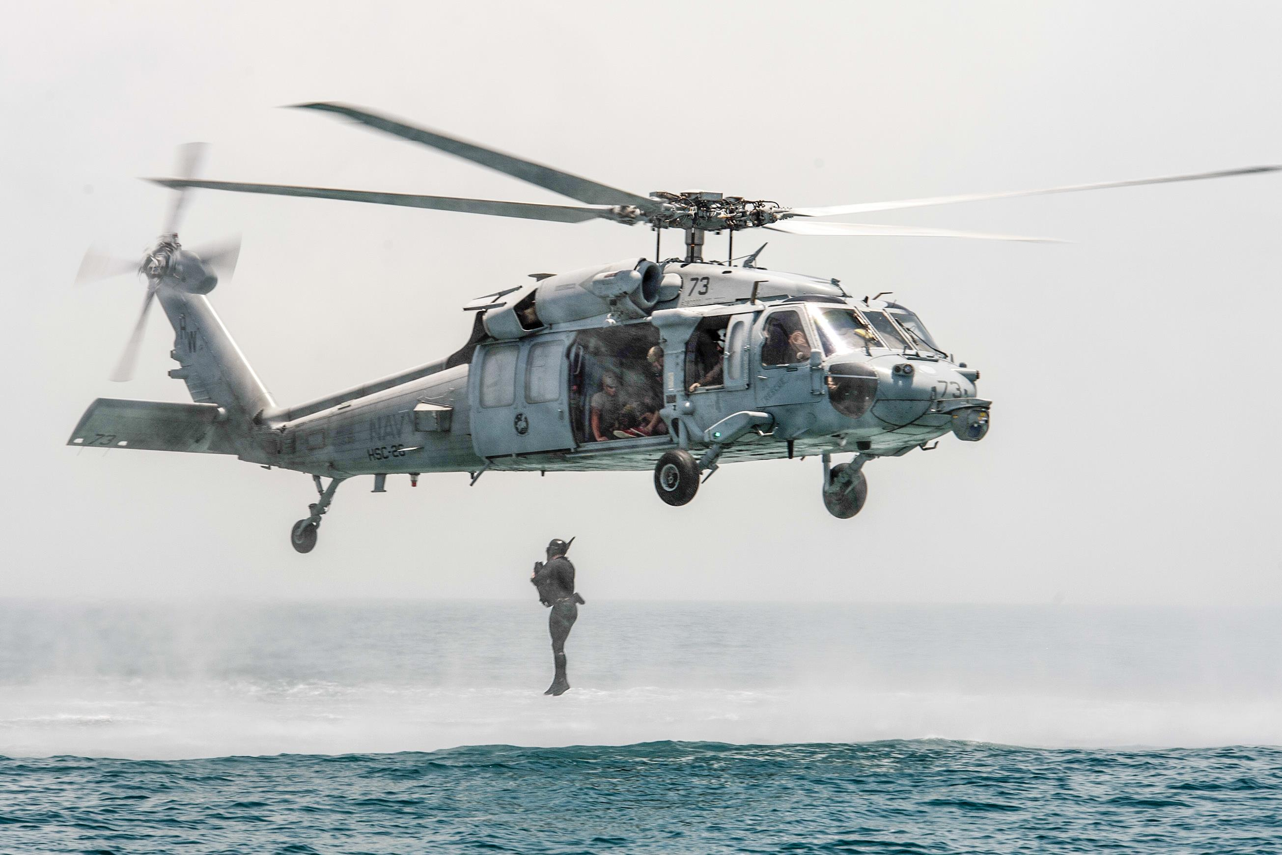 Sailors conduct cast and recovery operations in the Arabian Gulf, June 6, 2016. The sailors are explosive ordnance disposal technicians assigned to Commander, Task Group 56, which conducts mine countermeasures, explosive ordnance disposal, salvage diving and force protection operations throughout the U.S. 5th Fleet area of operations. Navy photo by Petty Officer 2nd Class Sean Furey